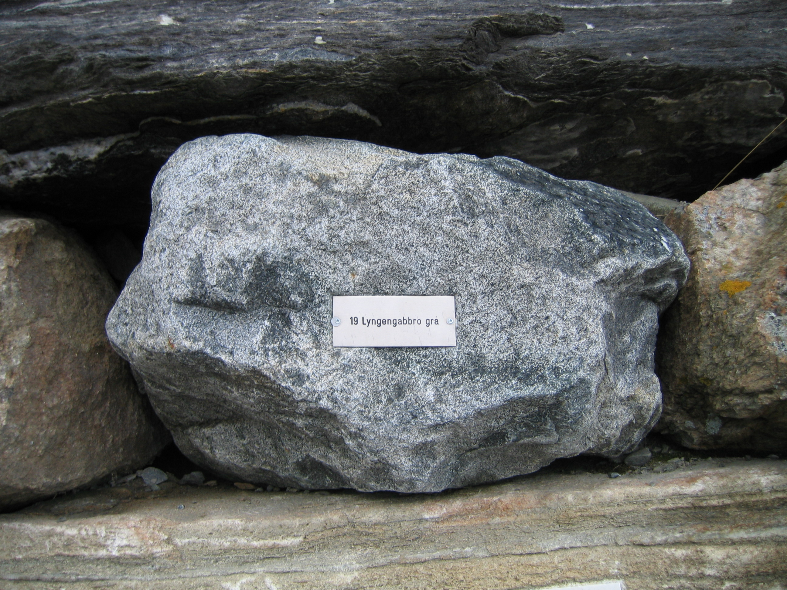 The rock type "Lyngengabbro grå". Picture taken by ZorroIII.